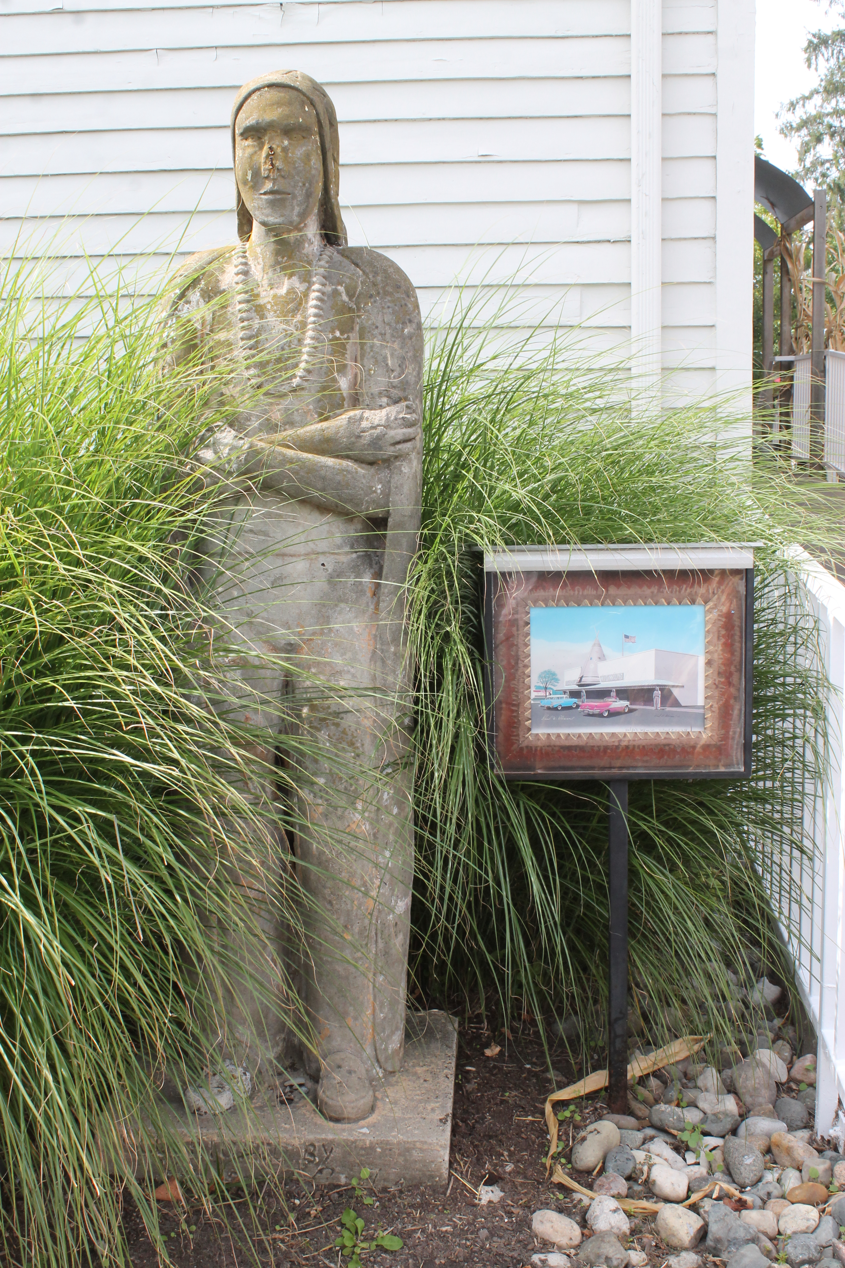 Originally from Hedge's Wigwam in Pleasant Ridge, Michigan.